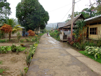 Borja village — located in the Loreto Region of northeastern Perú.